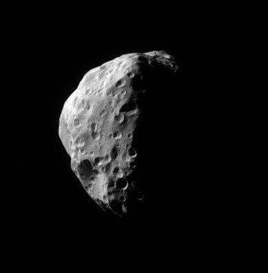 Epimetheus from Cassini